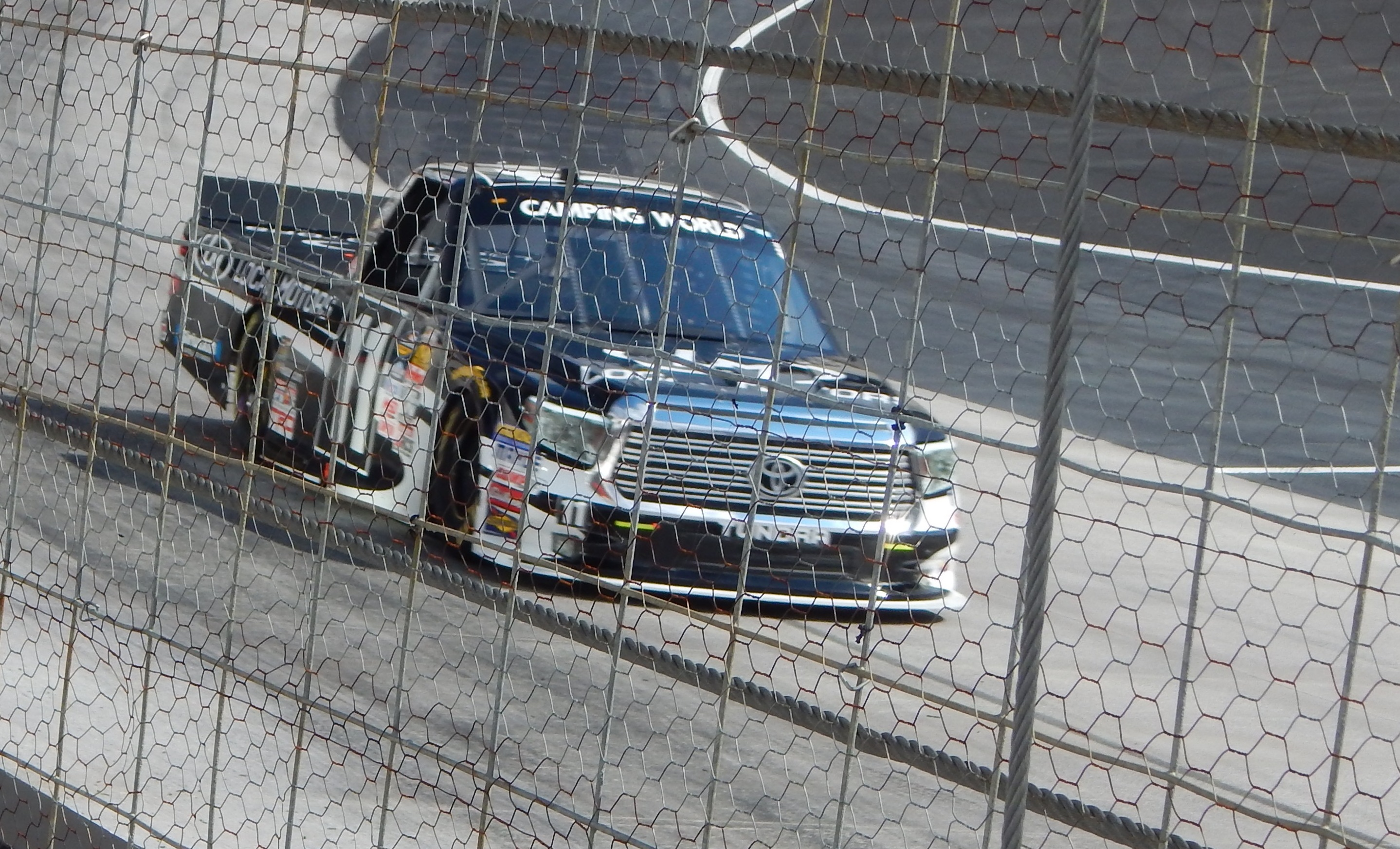 Ben Kennedy qualified 11th for that night's UNOH 200 at Bristol Motor Speedway.